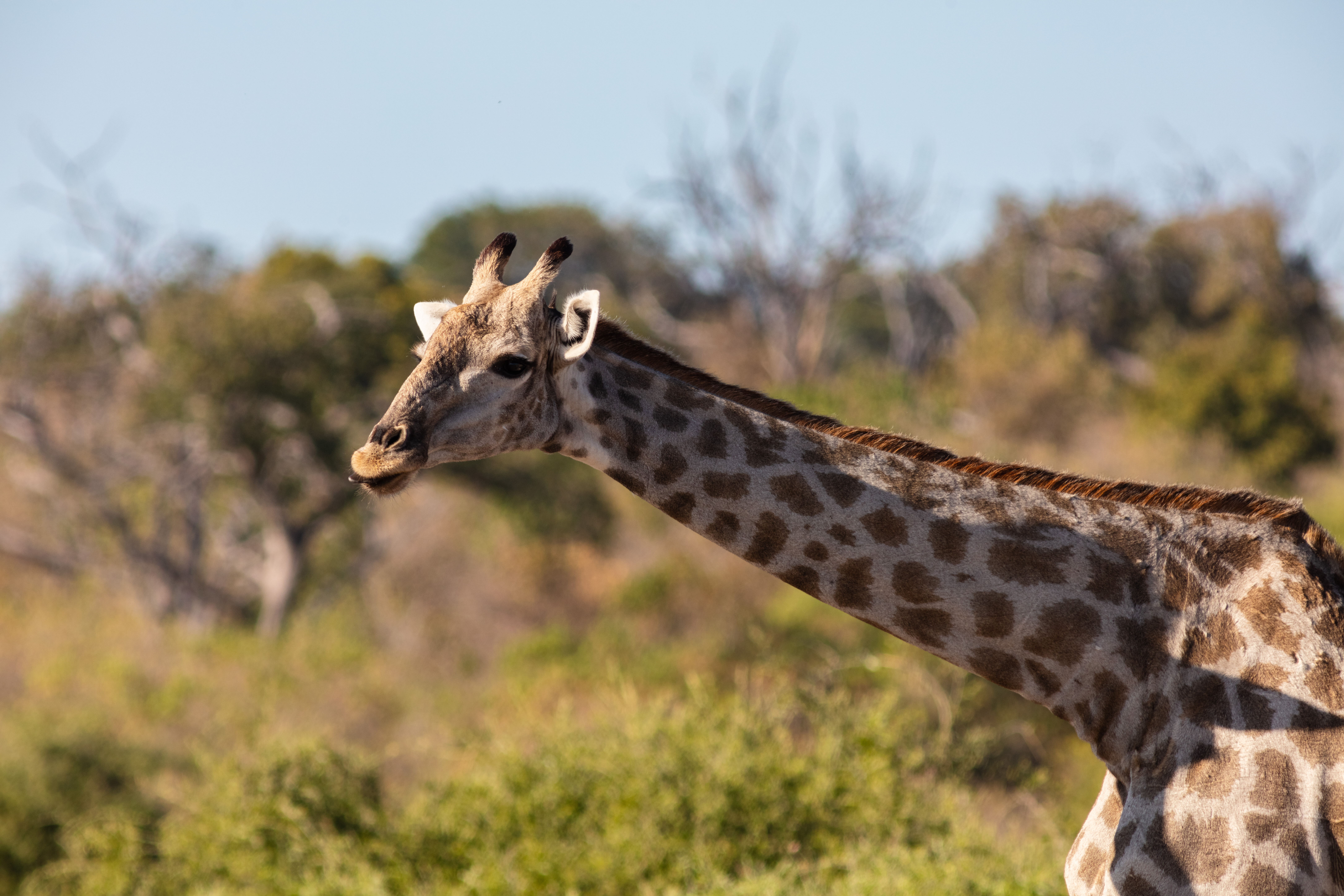 Northern giraffe (Giraffa camelopardalis), Chobe National Park, Botswana